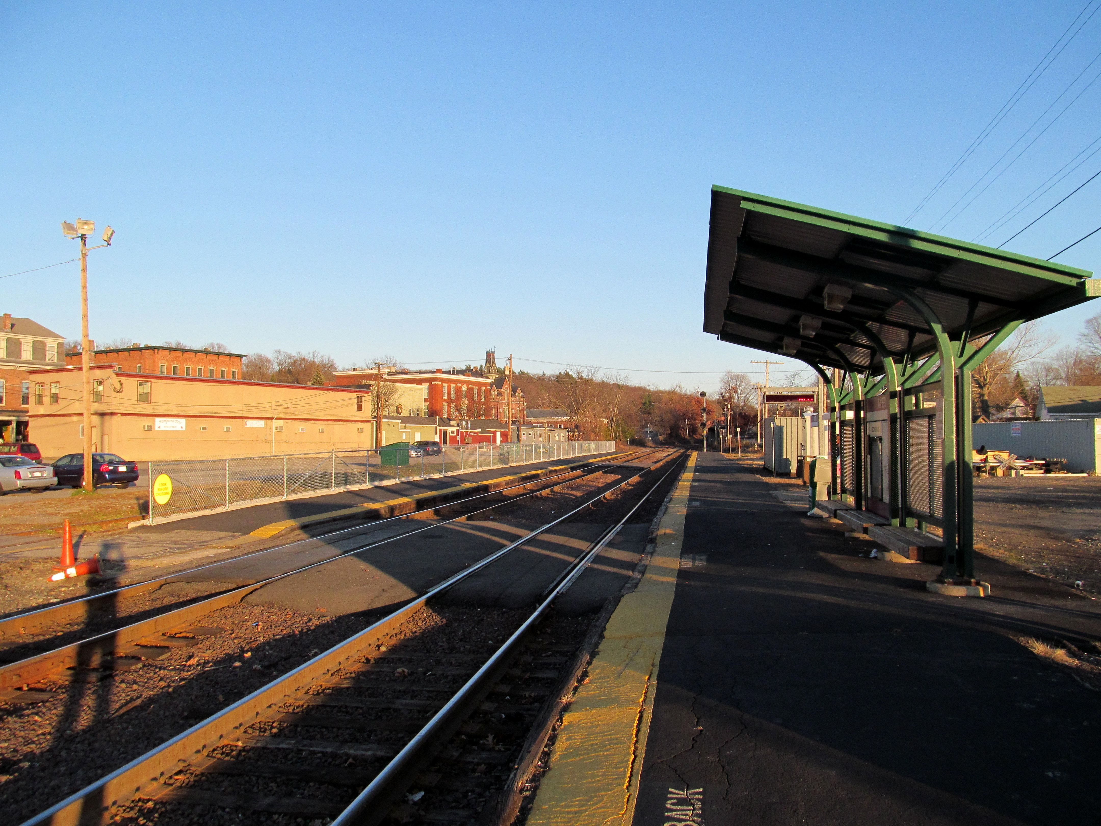 Inbound platform at Ayer, looking inbound towards Boston